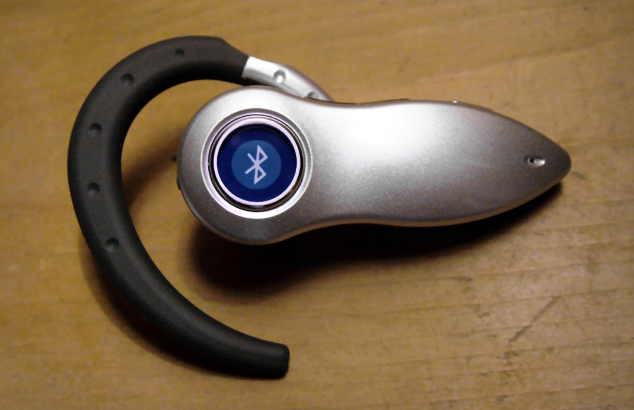 A Bluetooth headset for mobile phones. 8 ISO: 400